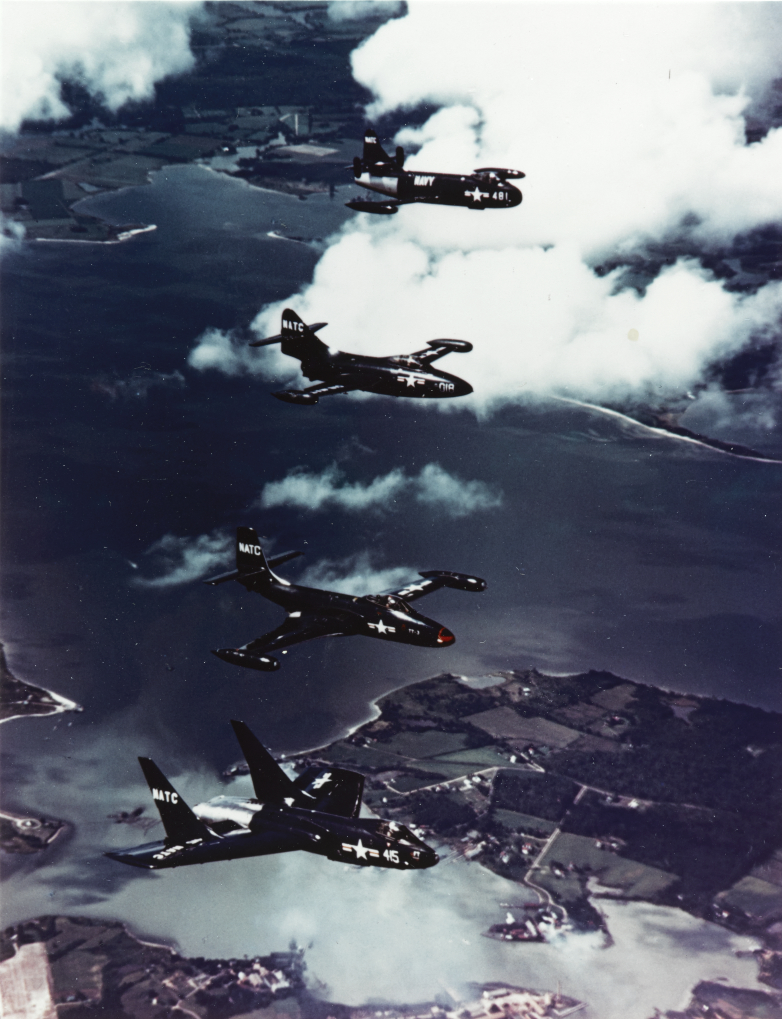 Four U.S. Navy aircraft assigned to the Naval Air Test Center at Naval Air Station Patuxent River, Maryland (USA), in flight, circa in 1950: (front to back) Vought F7U-1 Cutlass (BuNo 124415), this aircraft made its first flight on 1 March 1950; McDonnell F2H-2 Banshee (BuNo 123222); Grumman F9F-2 Panther (BuNo 123018); Vought F6U-1 Pirate (BuNo 122481).